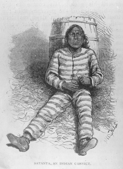 Illustration of Kiowa man, Set-tain-te (White Bear) in prison 1870